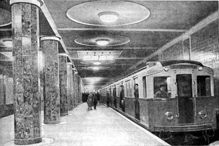 Krasnoselskaya station of the Moscow Metro, opened in 1935.